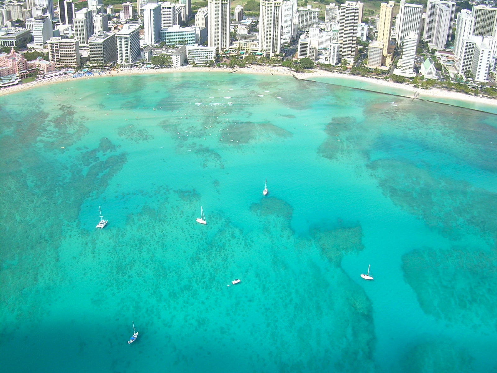 Crystal blue waters of Waikiki beach area